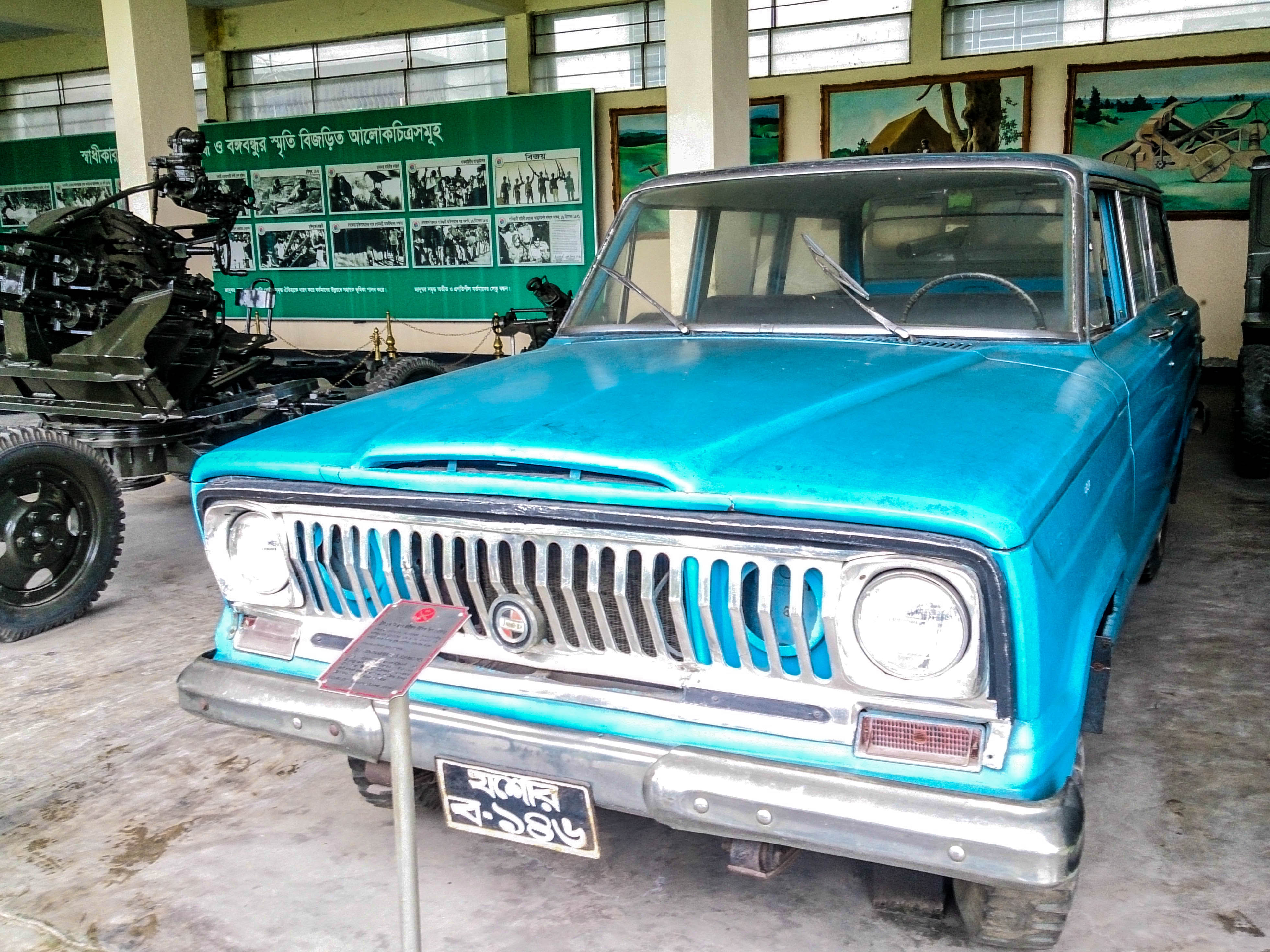 The commander-in-Chief of Bangladesh Armed Forces general M. A. G. Osmani visited different war-fronts with this jeep during the liberation war in 1971. This jeep is now in the Bangladesh Military Museum.